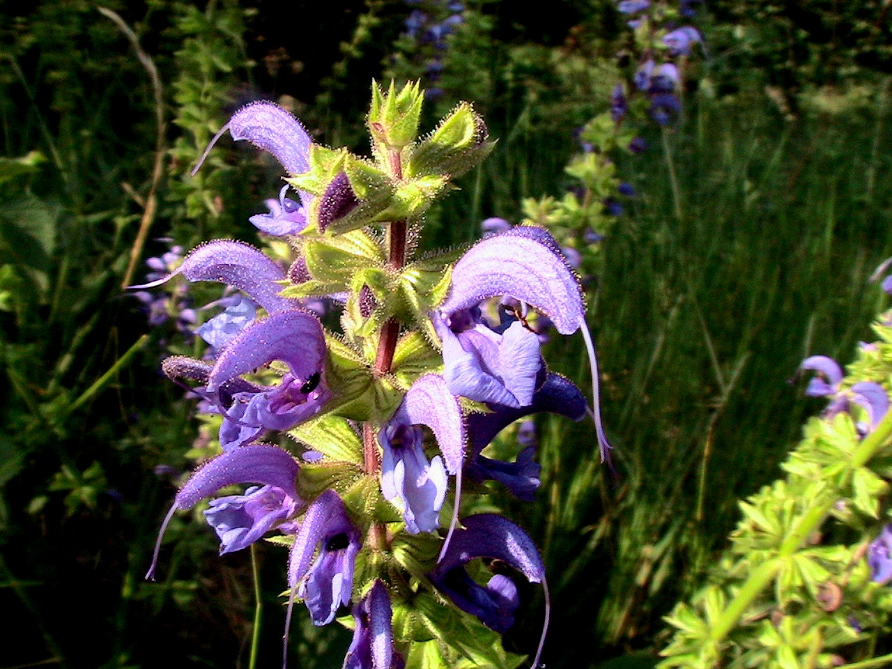 Salvia verbenaca . In Pinós (Solsonès - Catalunya). To 575 m. altitude